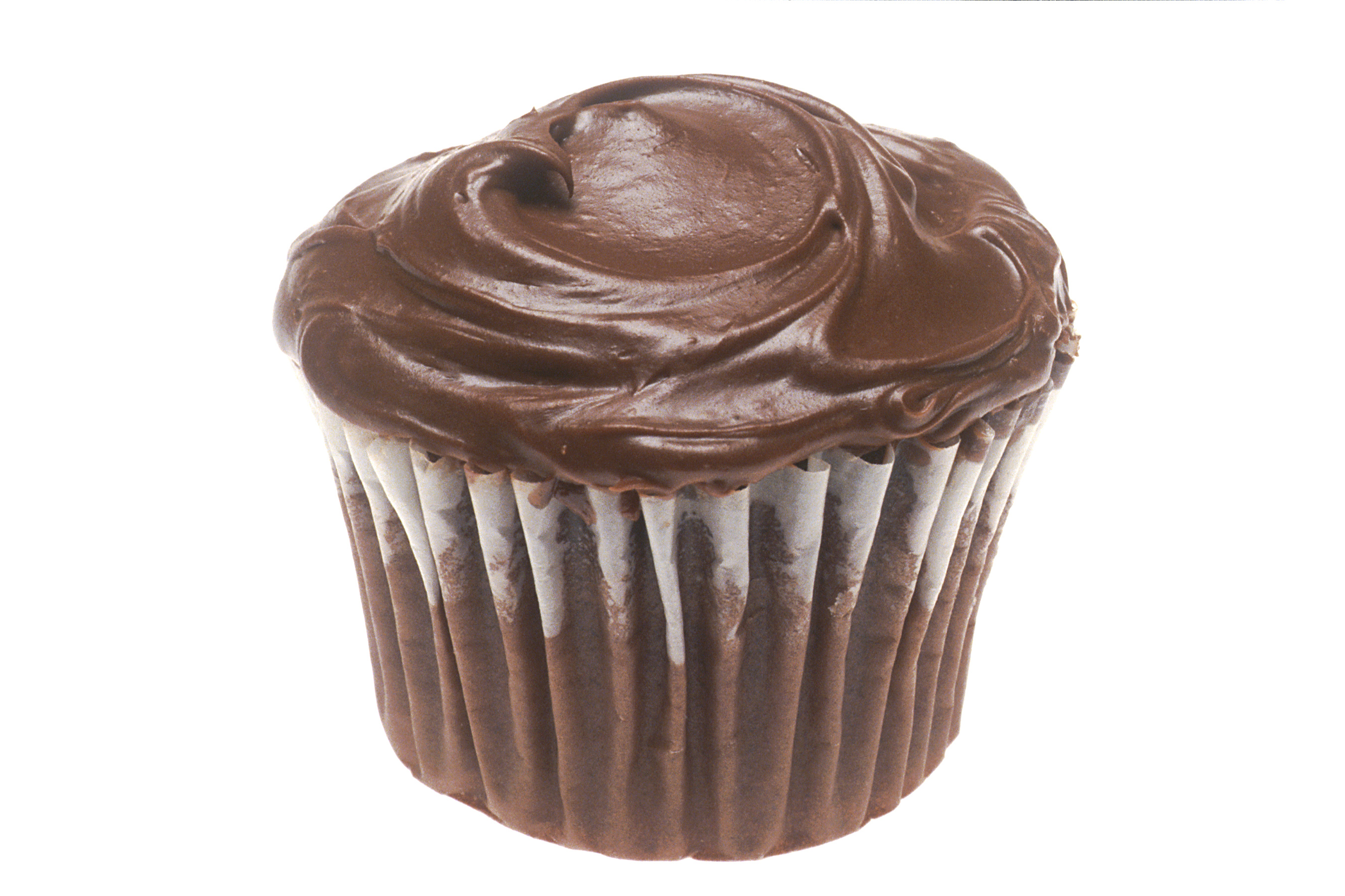 Title Cupcake Description One chocolate cupcake with chocolate icing. Topics/Categories Food and Drink Type Color, Photo Source National Cancer Institute